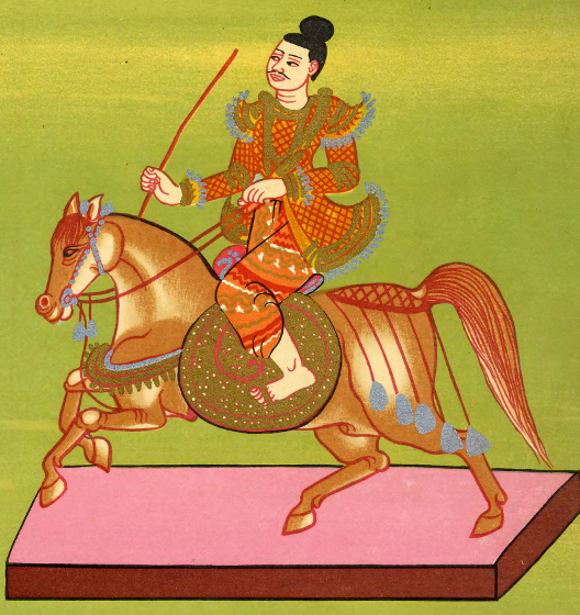 Min Kyawzwa nat (spirit), 32nd in the official pantheon of Burmese nats